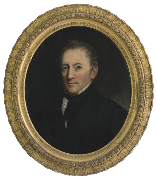 John Clarke of Saratoga Springs, NY. Painted by Nelson Cook 1n 1845.